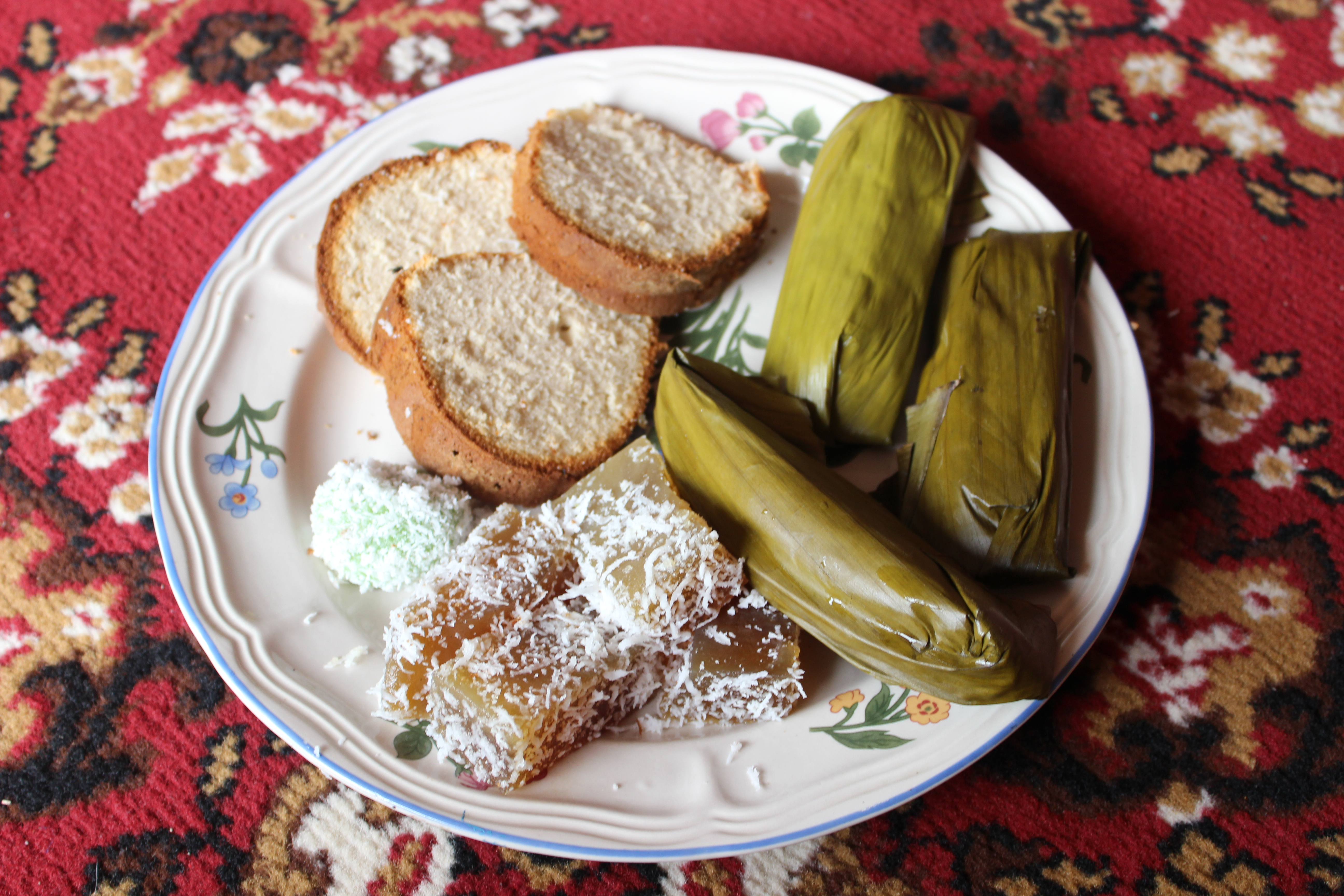 An example of Minangkabau-styled snack foods.